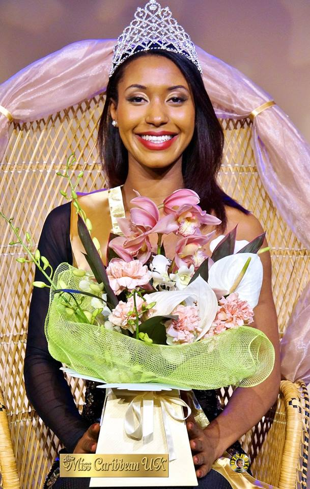 Keeleigh Griffith was crowned the first Miss Caribbean UK in 2014 on the Independence Day celebration of Barbados which is the island she represents.